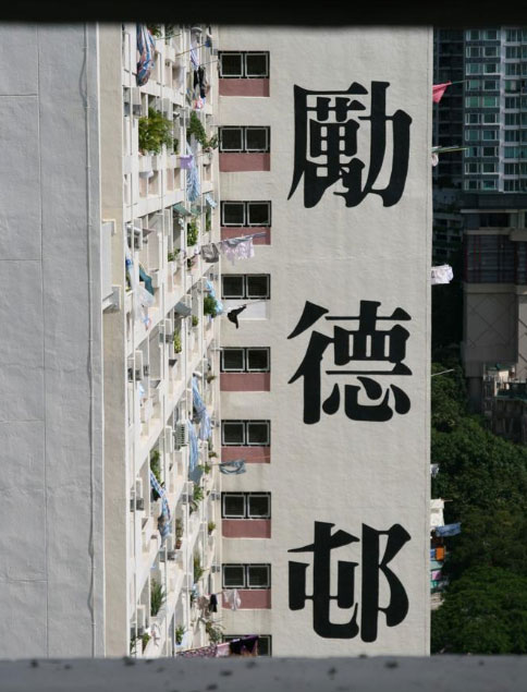 大坑勵德邨藝術攝影